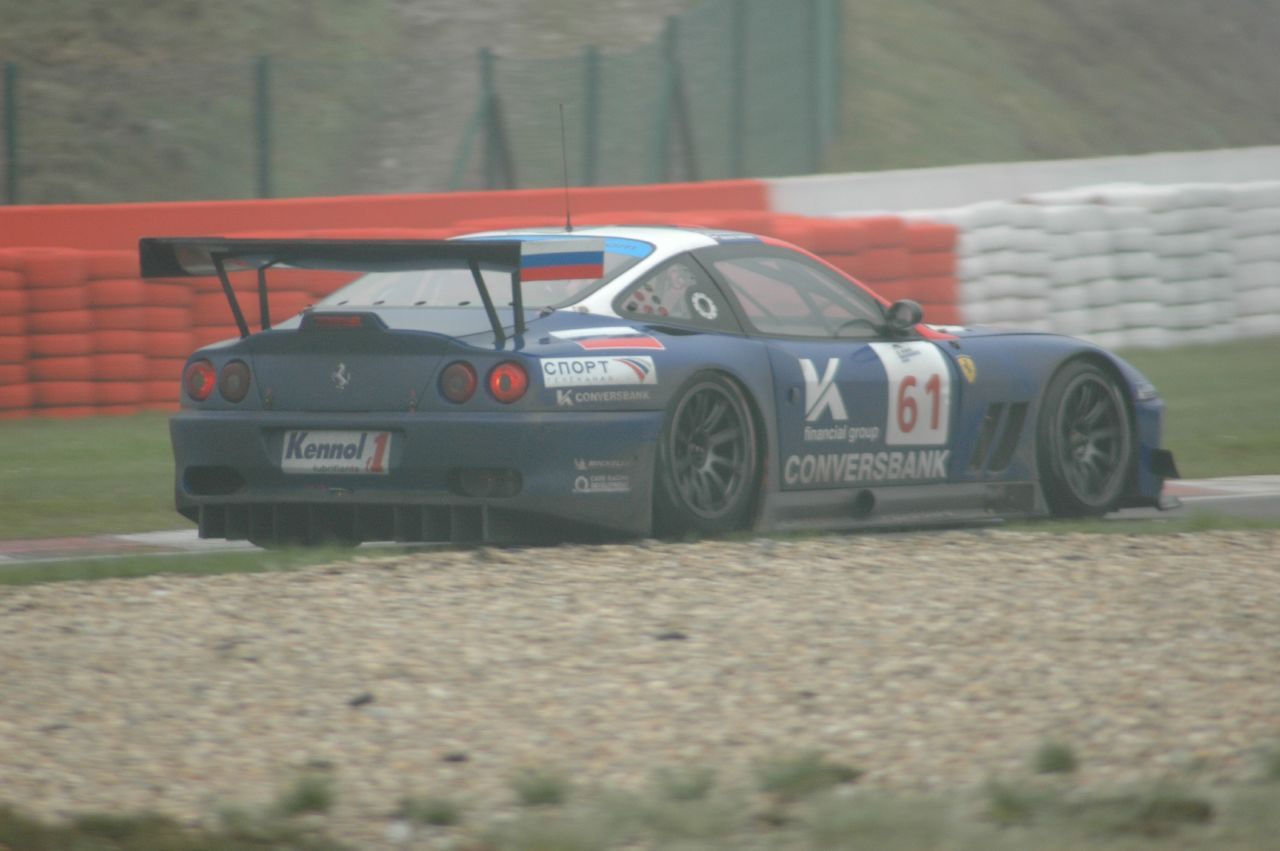 Convers Teams Ferrari 550-GTS Maranello at the 2005 1000km of Spa